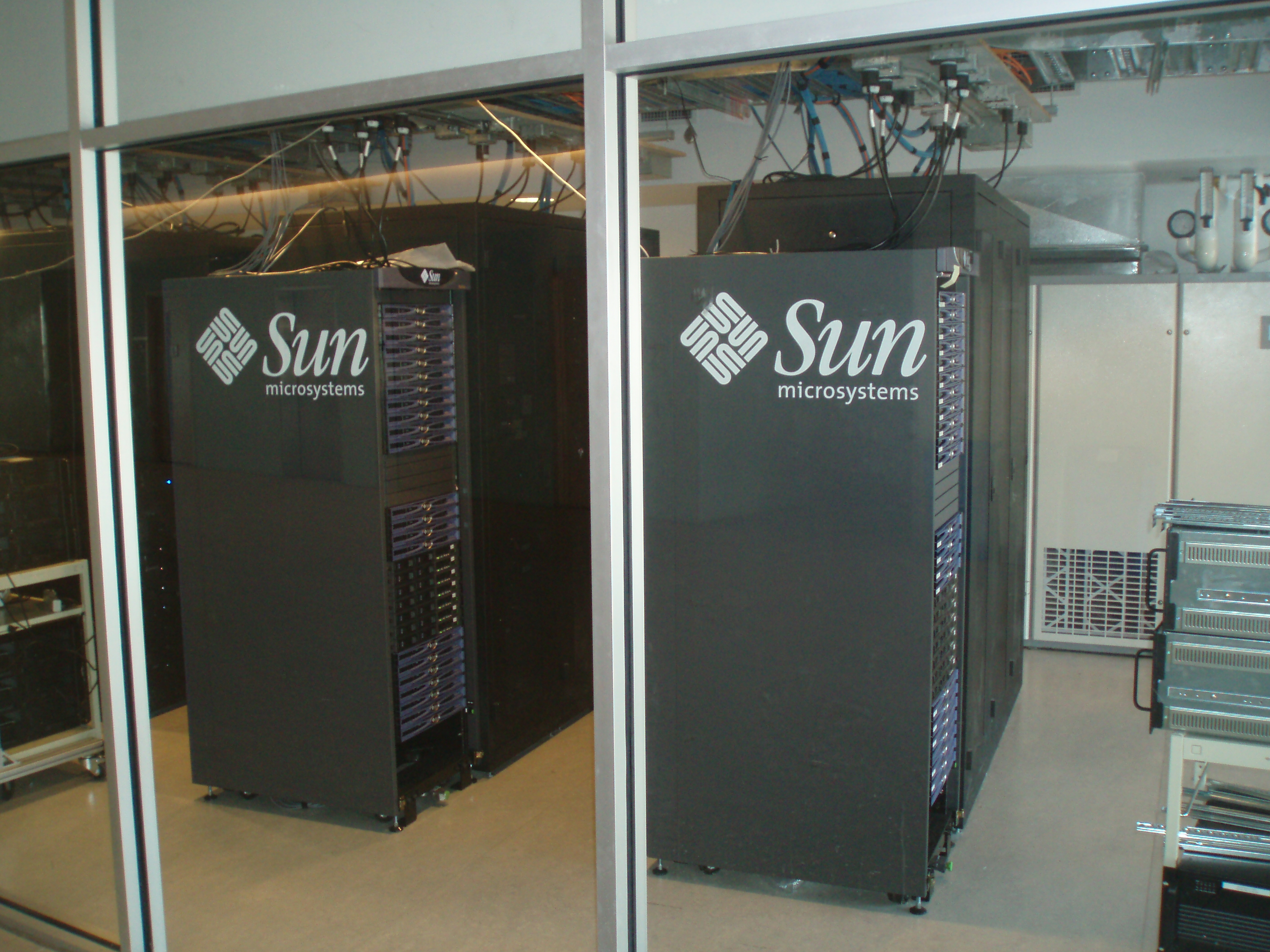 Sun Rack Mount Servers